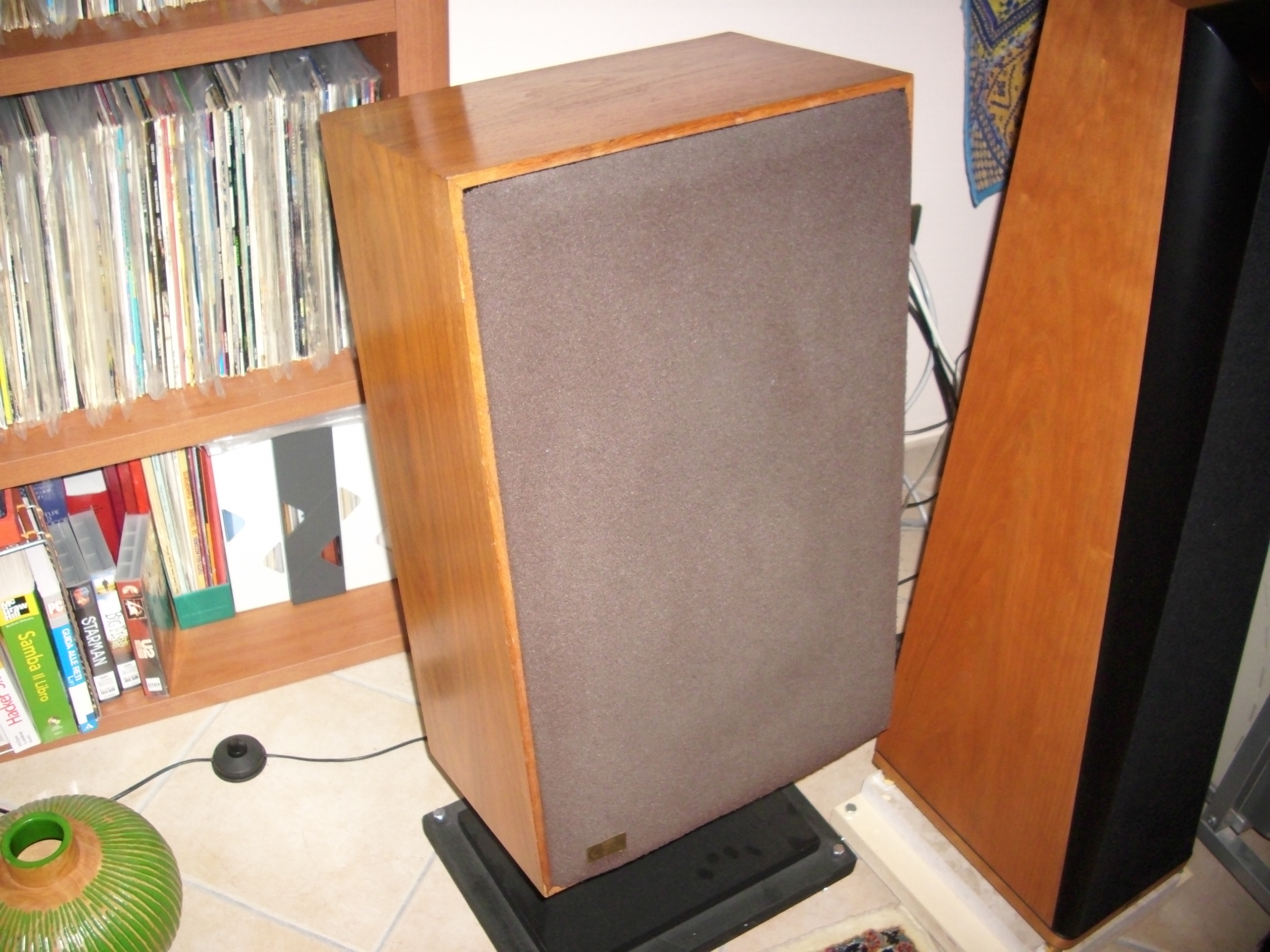 Cizek Model One with Foam Cover